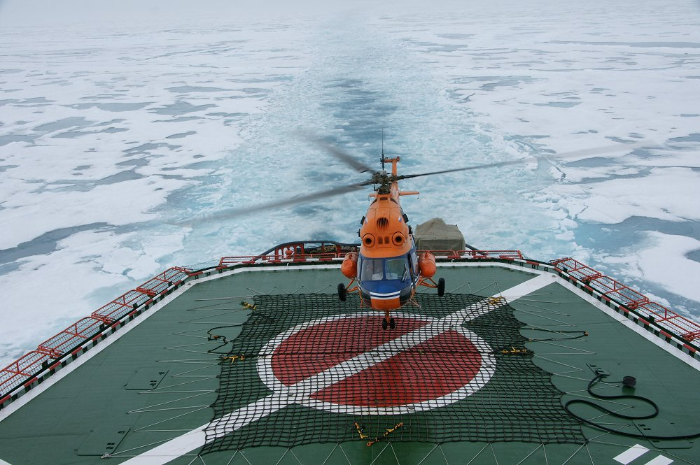 Russian light helicopter MI-2 taking off nuclear i/b '50 let Pobedy' (Russia)